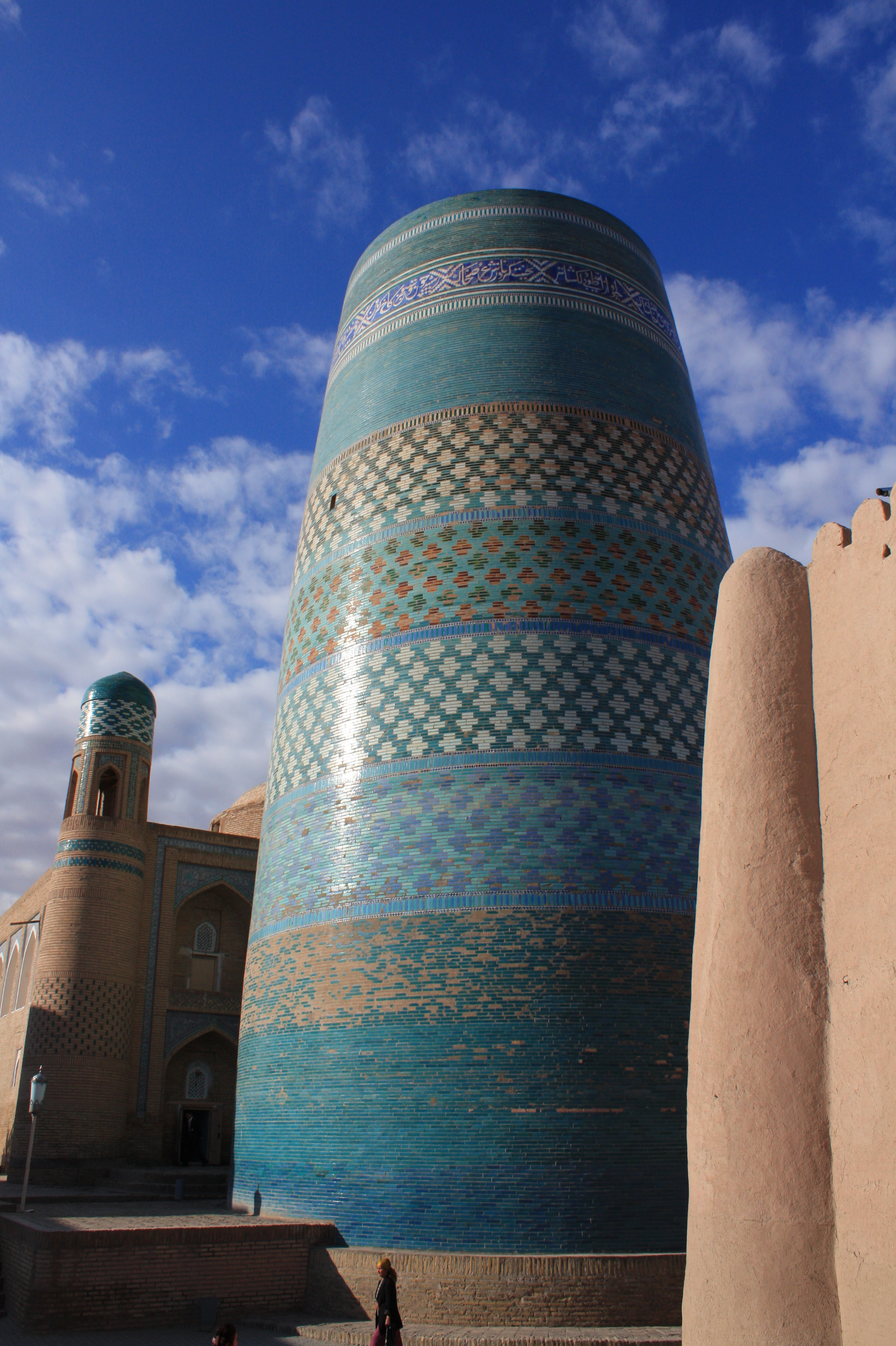 Kalta Minor, in Khiva (Uzbekistan). 1852